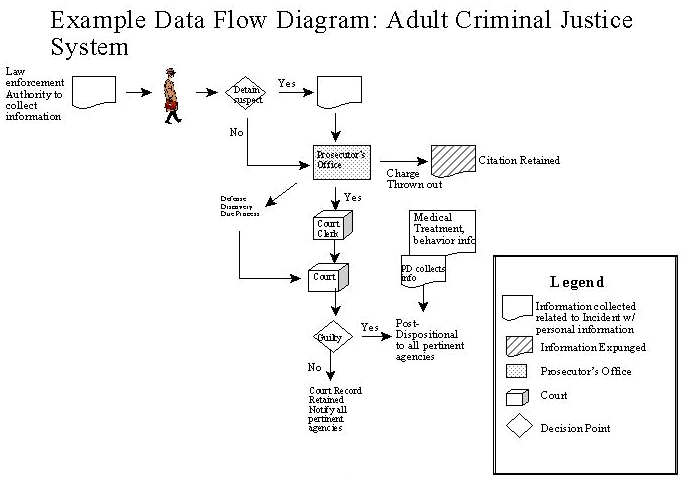 Example Date Flow diagram: Adult Criminal Justice System.